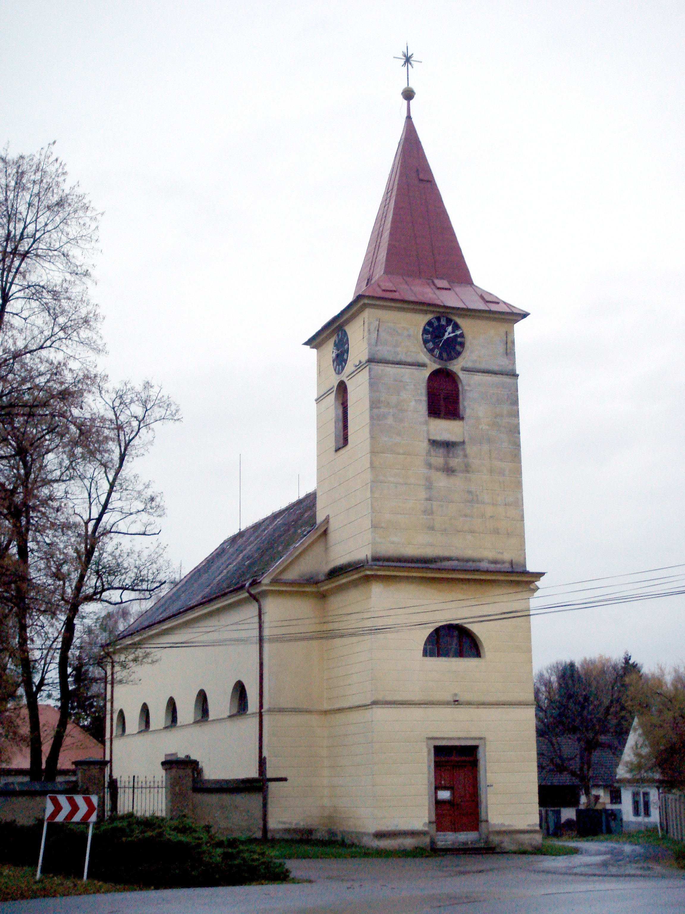 Church of Saint Adalbert in Libice nad Cidlinou (Central Bohemian Region, Czech Republic).